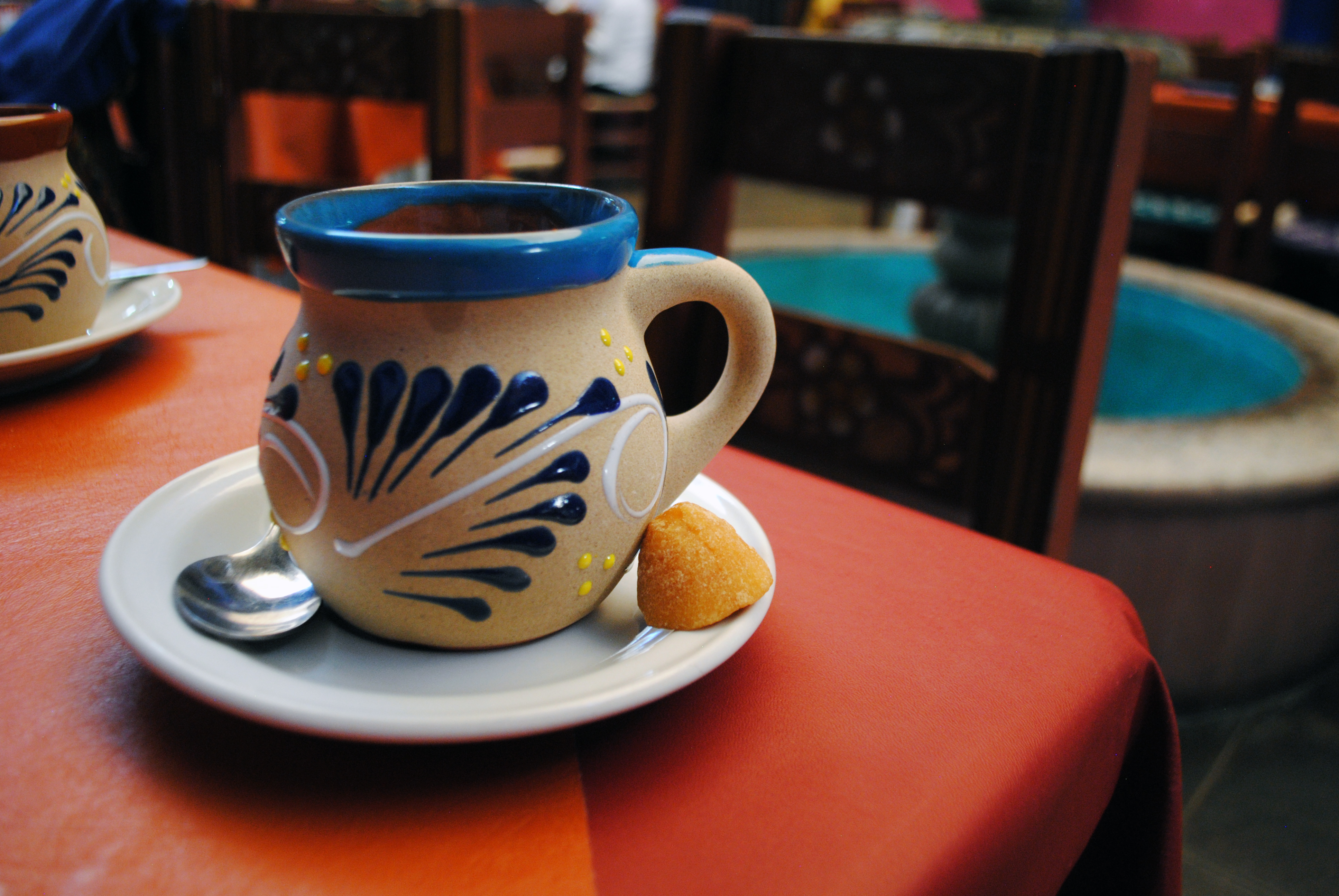 Traditional cafe de olla with a lump of panela.